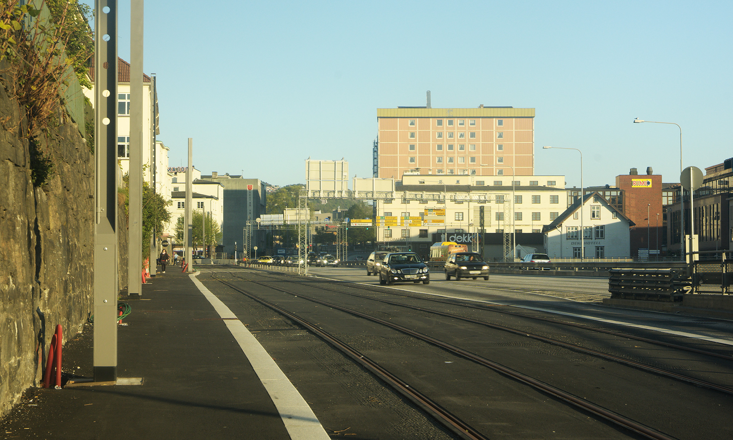 Bergen Light Rail tracks at Danmarks plass in Bergen, Norway.